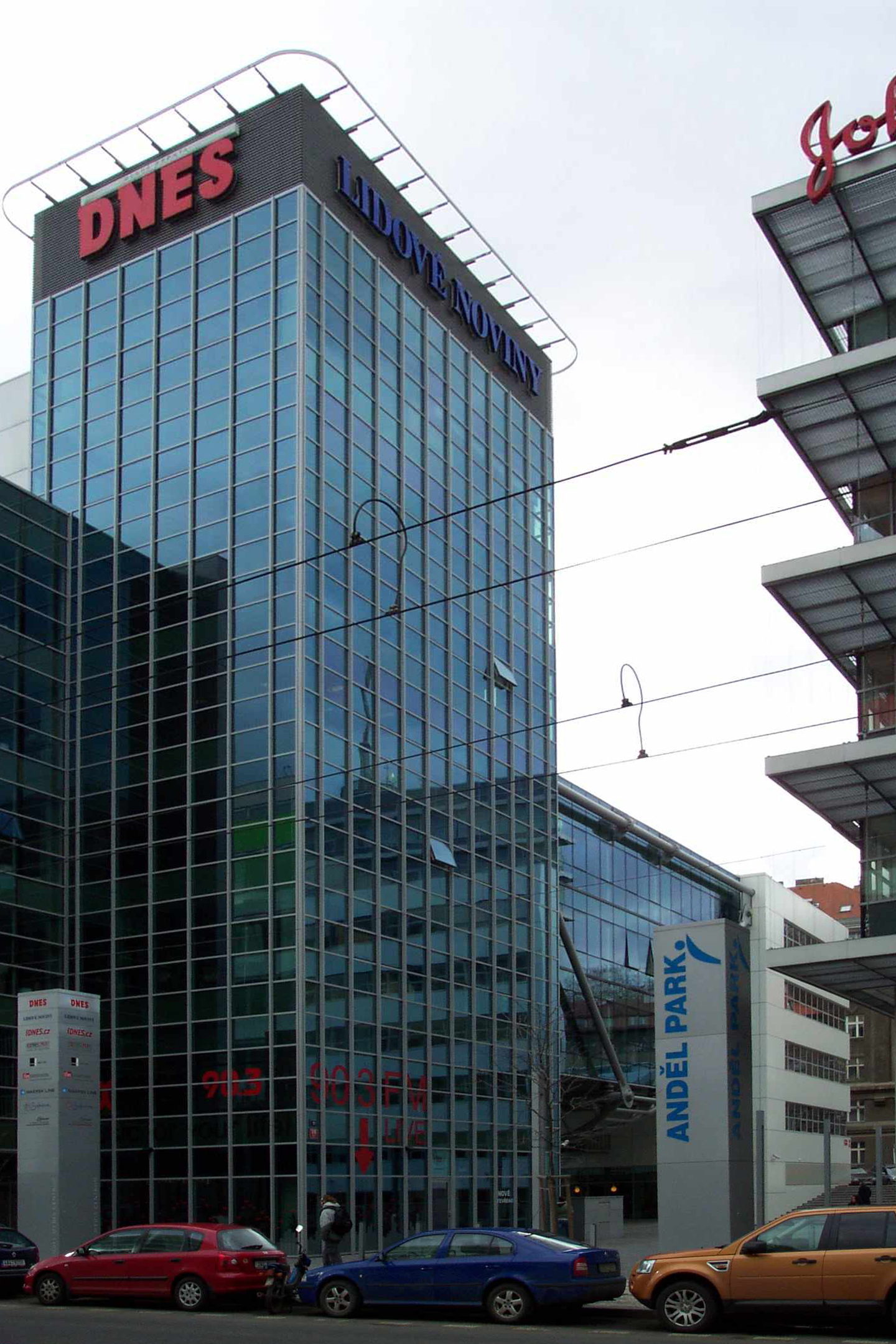 Prague-Smíchov, Radlická street, Anděl Media Centrum, HQ in Prague of MF Dnes and Lidové noviny, two major Czech newspapers.